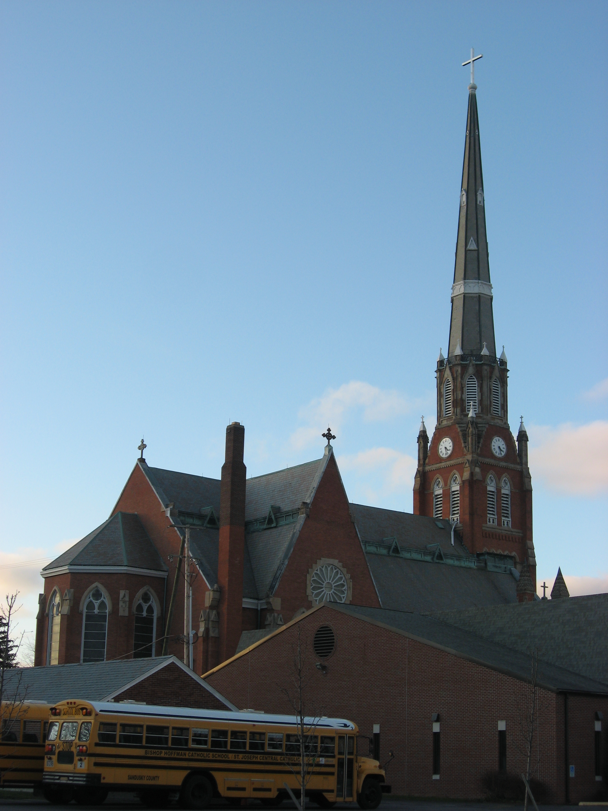 Rear and eastern side of St. Joseph's Catholic Church, located at 709 Croghan Street in Fremont, Ohio, United States.